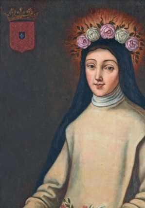 Saint Rosaline of Villeneuve